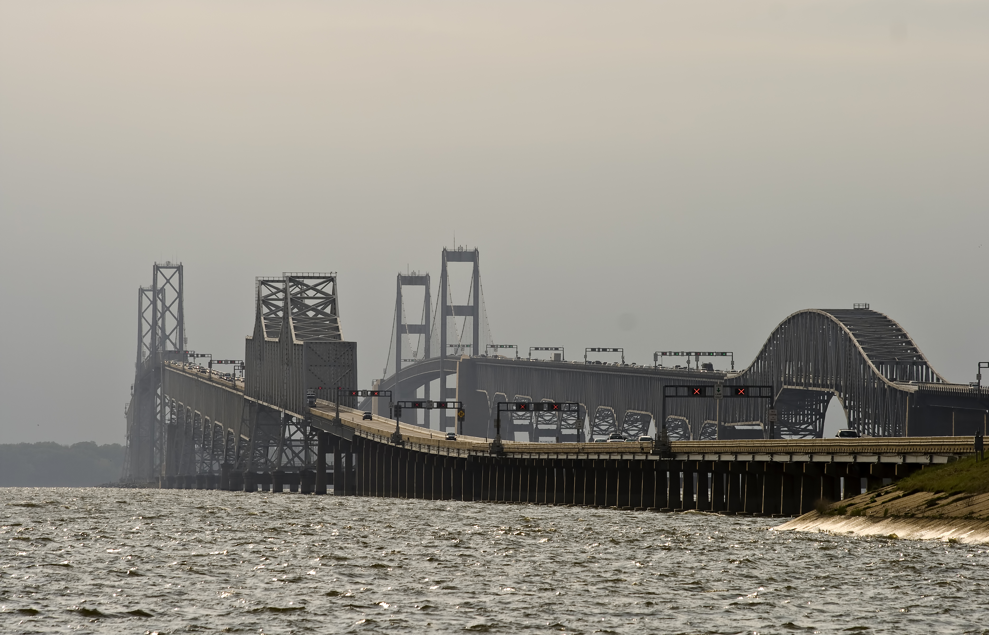 Chesapeake Bay Bridge from the Queen Anne's County side, Maryland, USA